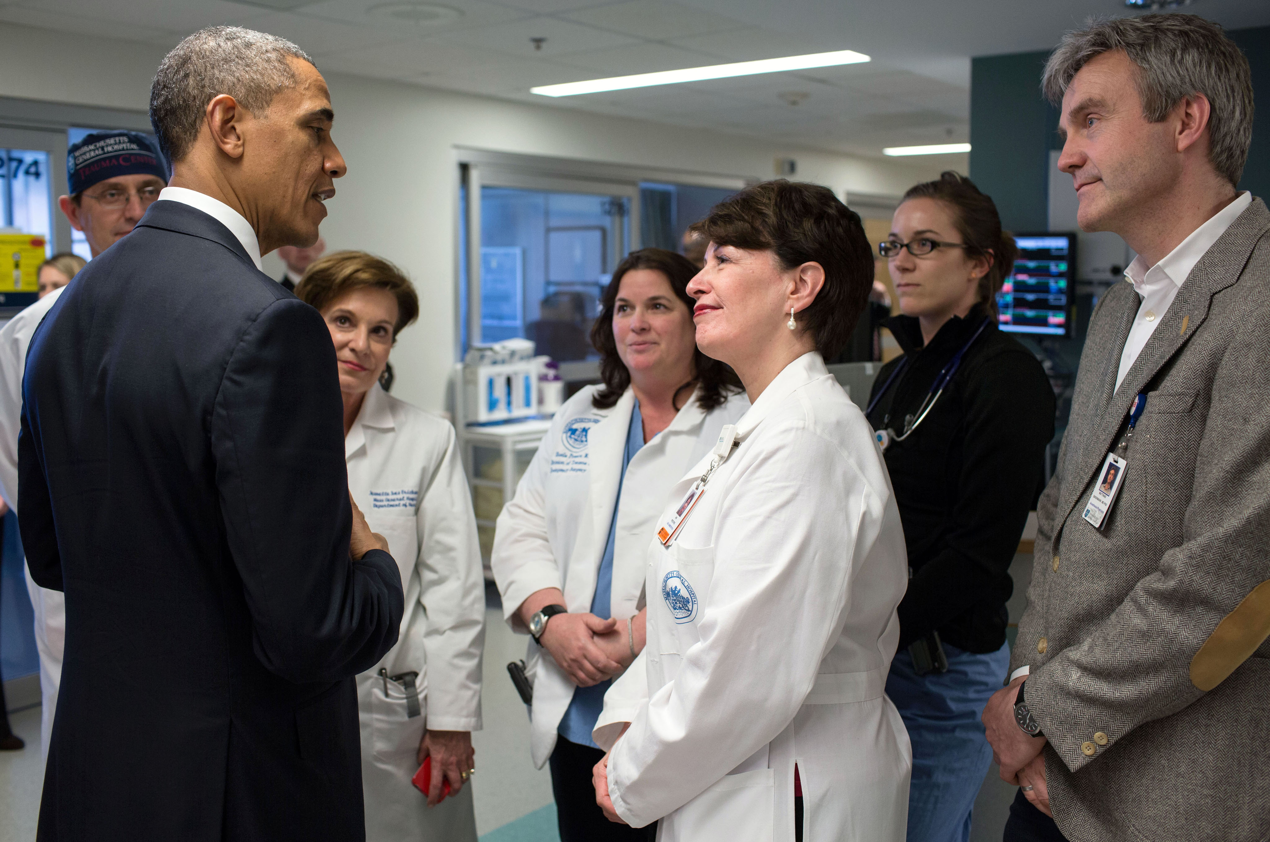 United States President Barack Obama talks with staff at Massachusetts General Hospital in Boston, Massachusetts on 18 April 2013. The President visited the hospital to meet patients wounded in the 2013 Boston Marathon bombings, following an interfaith prayer service at the Cathedral of the Holy Cross.